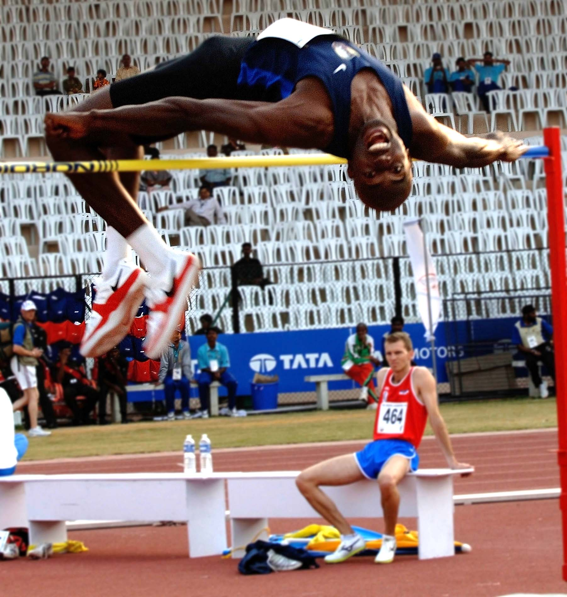 U.S. Army 2nd Lt. Gregory Roberts completes 6.56 feet in the high jump competition at the 4th Military World Games in Hyderabad, India, Oct. 17, 2007. The Conseil Internationale du Sport Militaire\'s Military World Games event is the largest international military Olympic-style event in the world. (U.S. Air Force photo by Master Sgt. Glenda S. Lynchard)